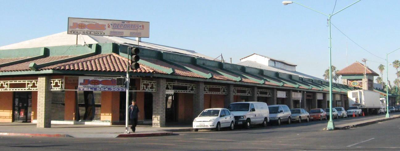 ABSA Shopping center in Mexicali Baja California Mexico with Chinese-style exterior.